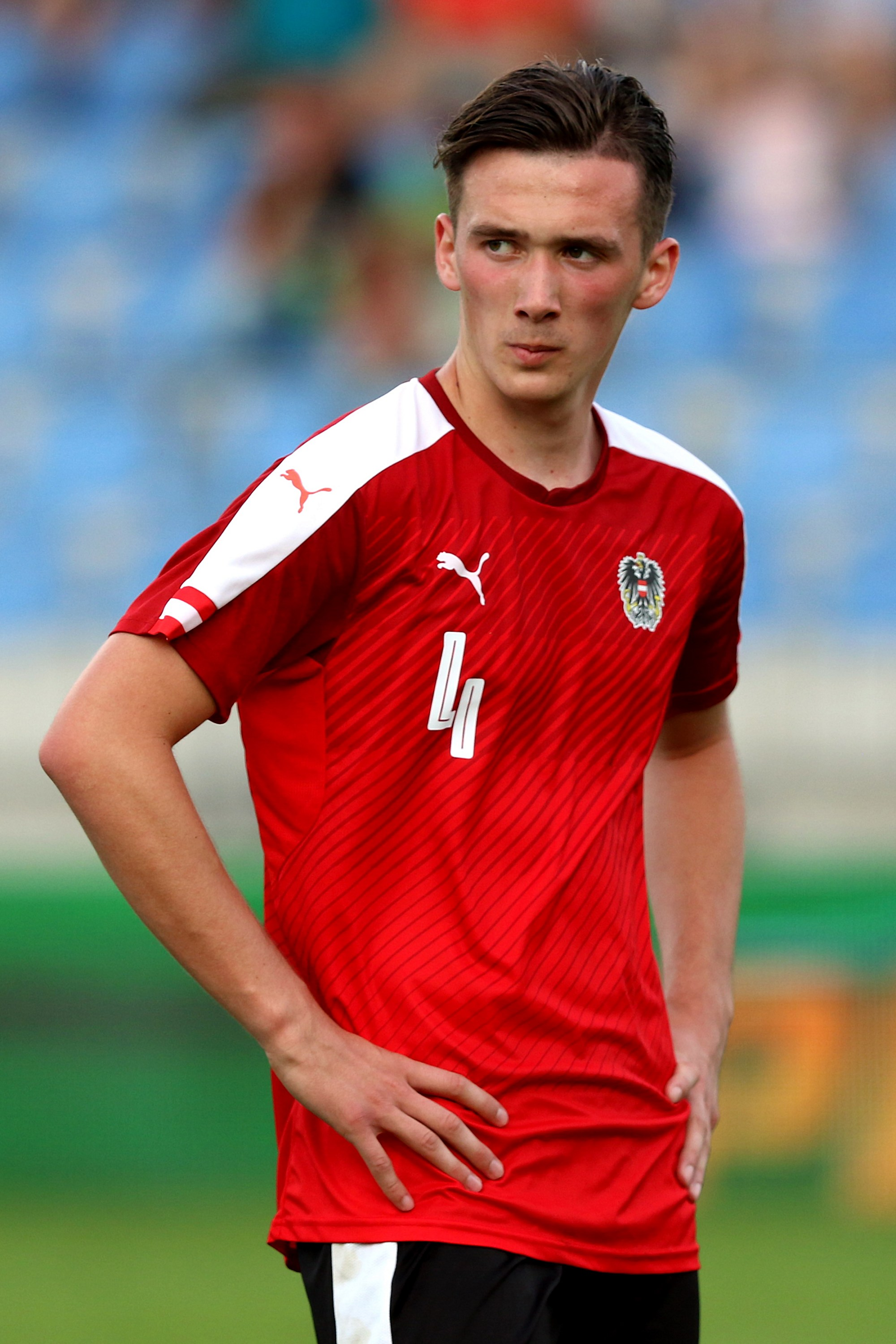 Friendly match: Austria U-21 (red shirts) vs. Hungary U-21 (white shirts) at 12. June 2017 in the Sonnenseestadion in Ritzing 2:1 (1:1) – The photo shows Dario Maresic (SK Sturm Graz)